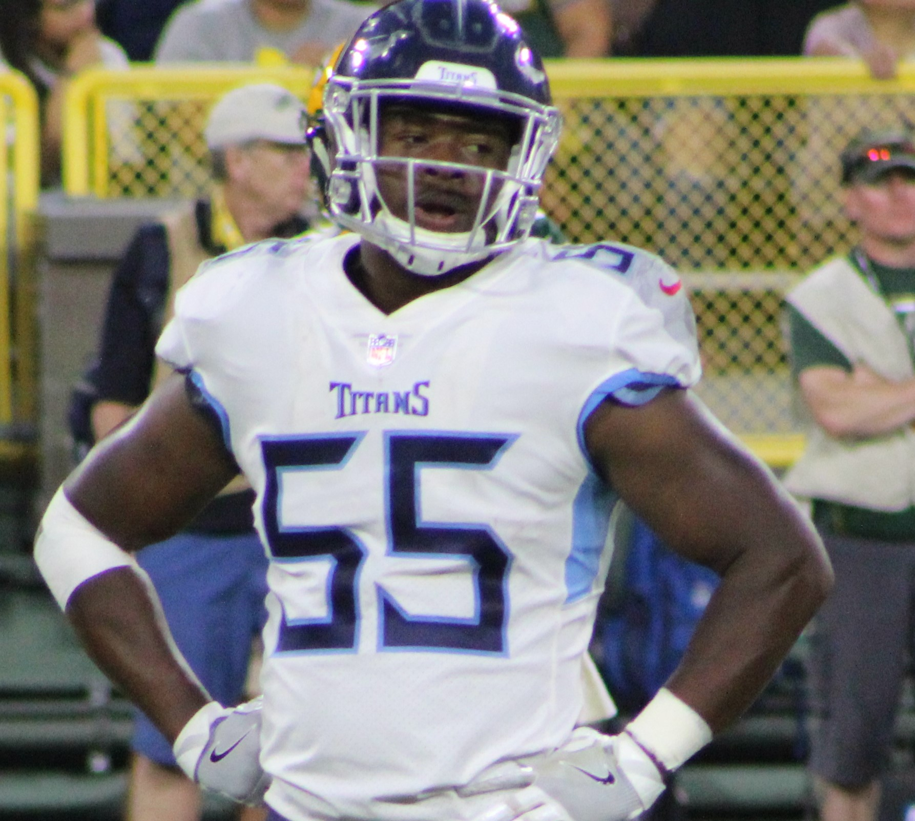 Jayon Brown with the Tennessee Titans on August 9, 2018